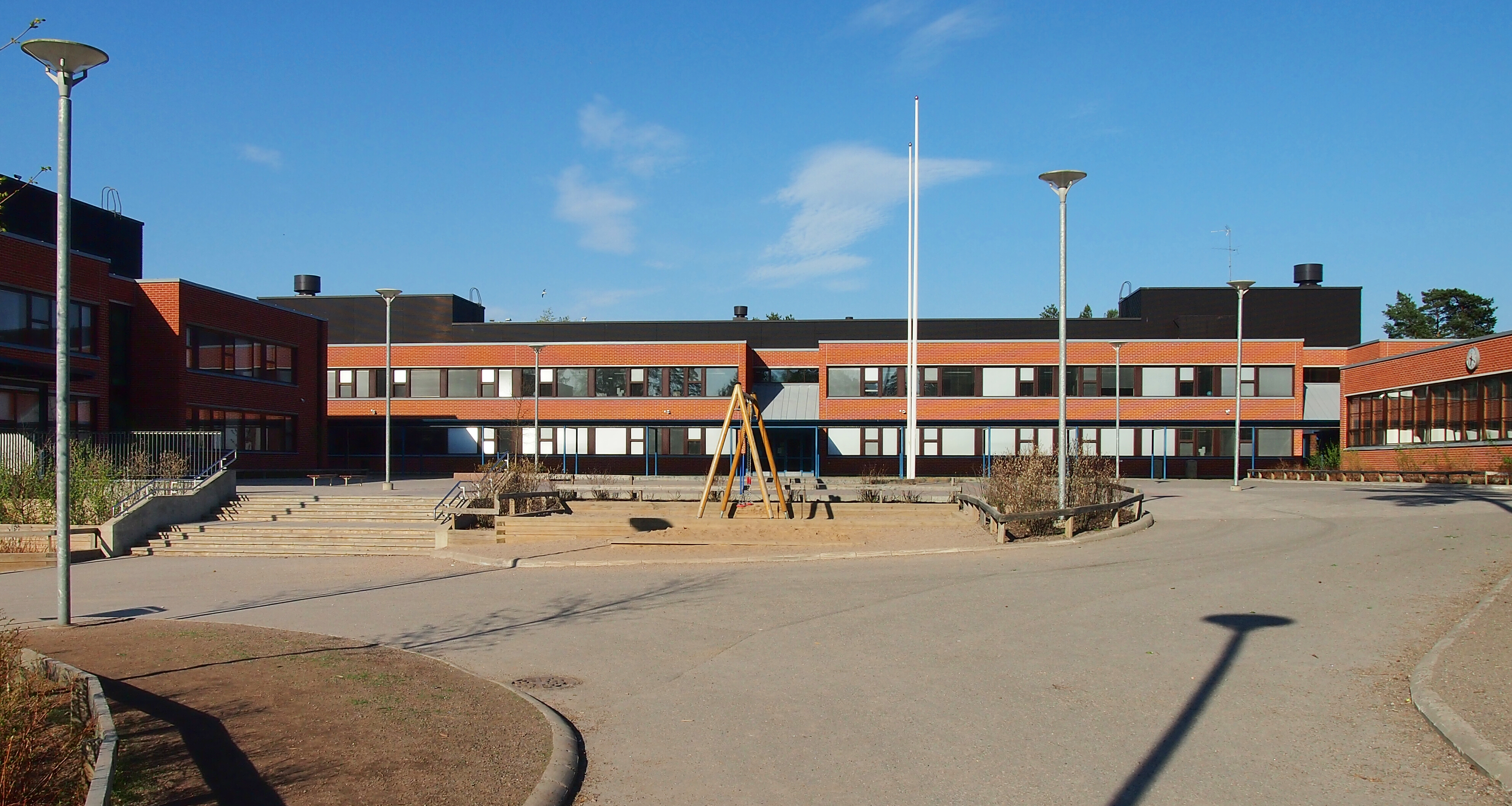 Soukka School in Espoo, Helsinki Area, Finland. A view from west.